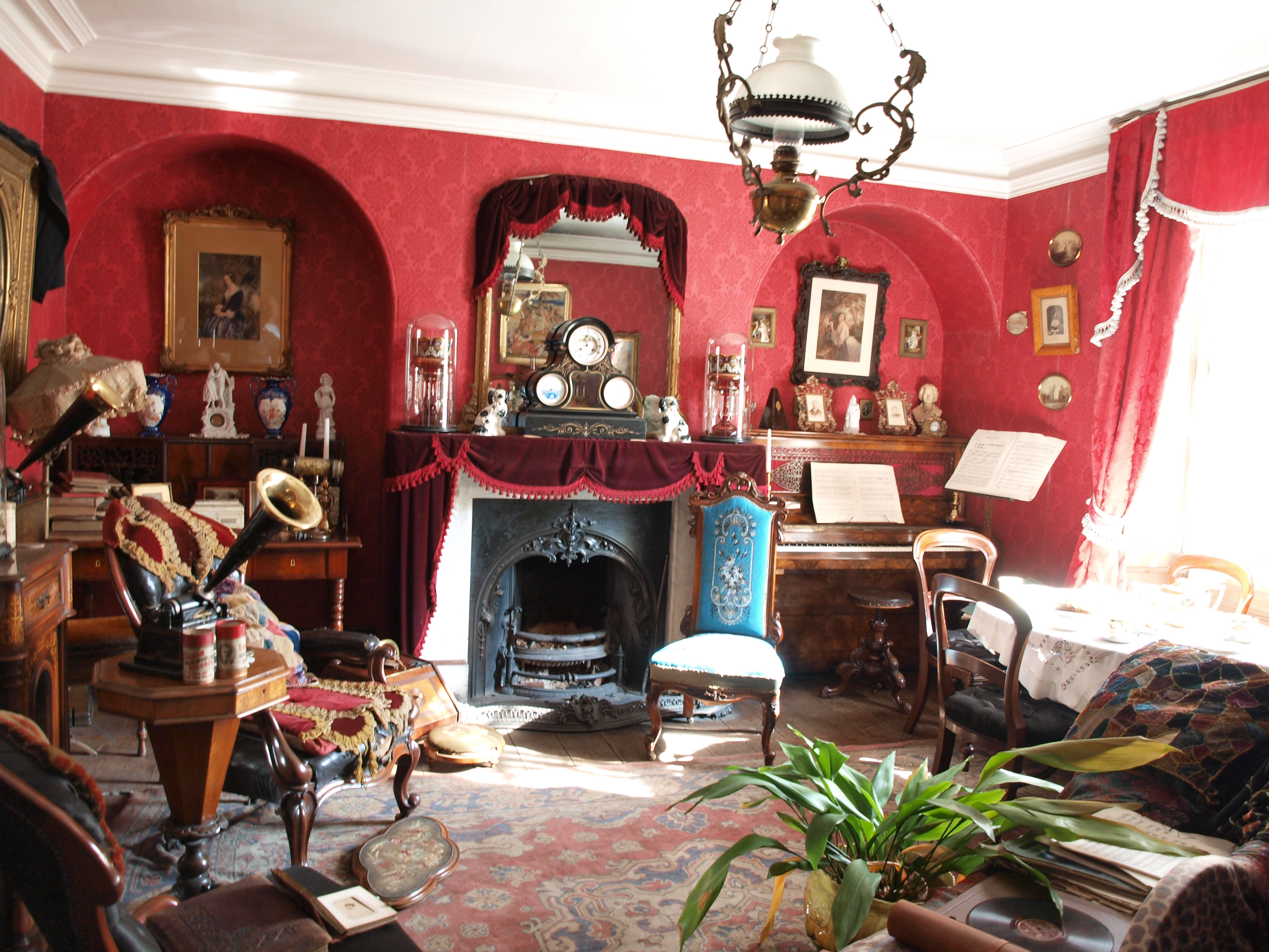 Beamish Museum, County Durham, England. This is the parlour of No. 2 Ravensworth Terrace, the home of the music teacher, Miss Florence Smith, on the north side of the main street in Town.